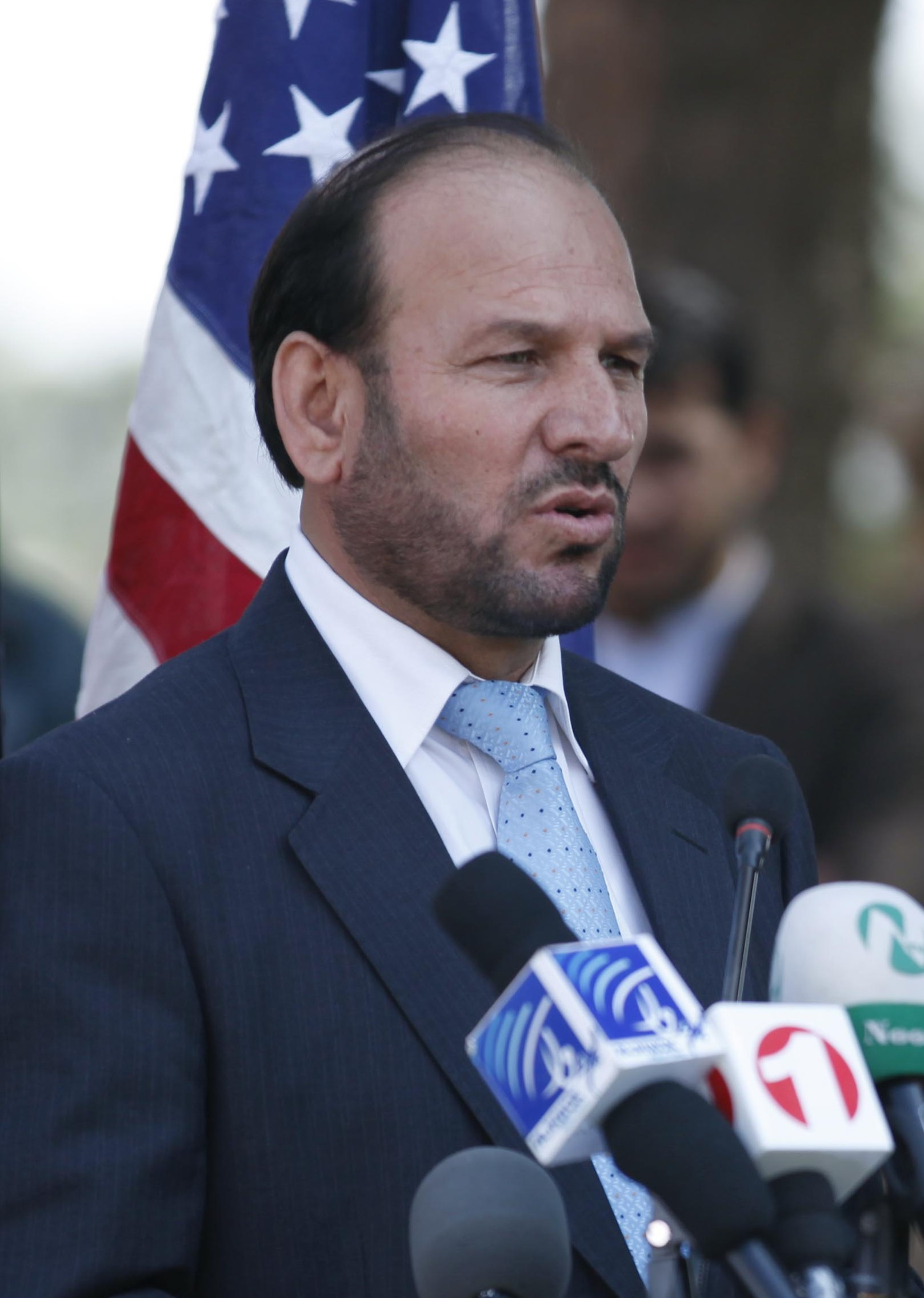 Parwan Provincial Governor Abdul Basir Salangi gives his remarks during officially opening of the U.S.-funded Parwan Drug Treatment Center in Parwan, Afghanistan.